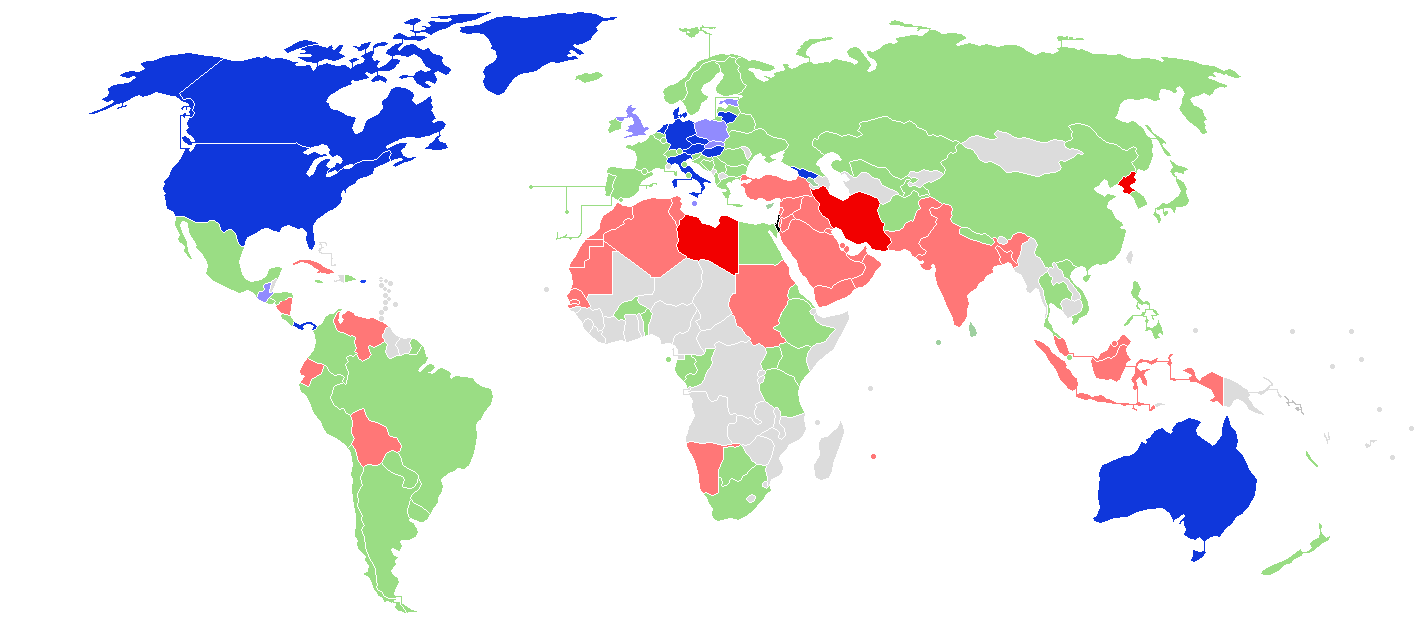 Proclamations from states concerning the 2008–2009 Israel–Gaza conflict.